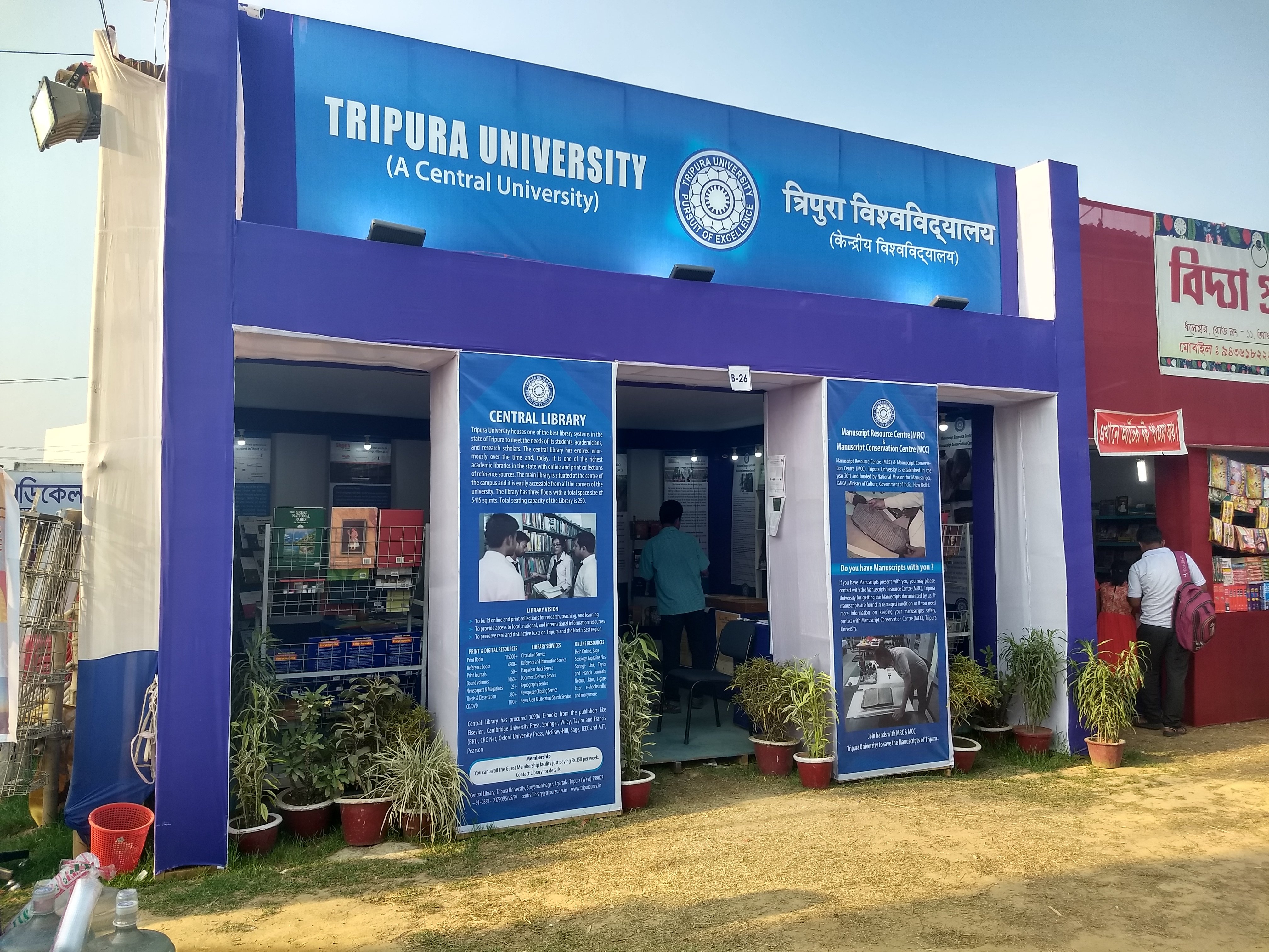 AGARTALA BOOK FAIR, TRIPURA UNIVERSITY STALL